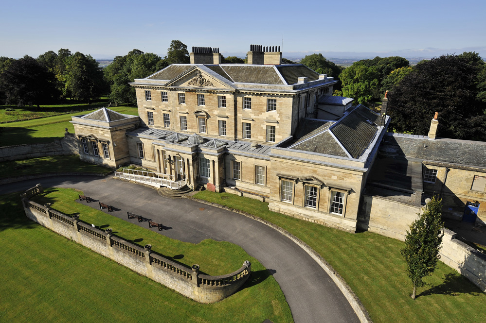 Hickleton Hall, Hickleton, South Yorkshire, seen from the northeast. The retaining wall lower left was added early in the 20th century and is listed separately as a Grade II listed building.